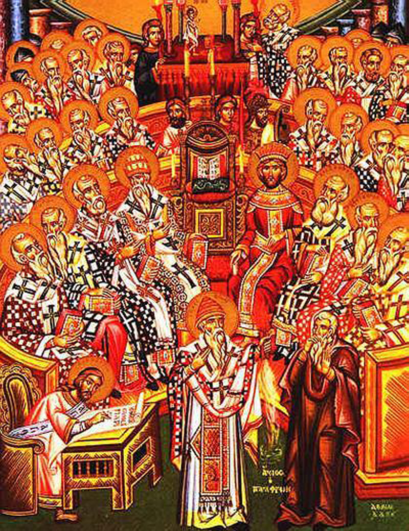 Eastern Orthodox icon depicting the First Council of Nicea (325).